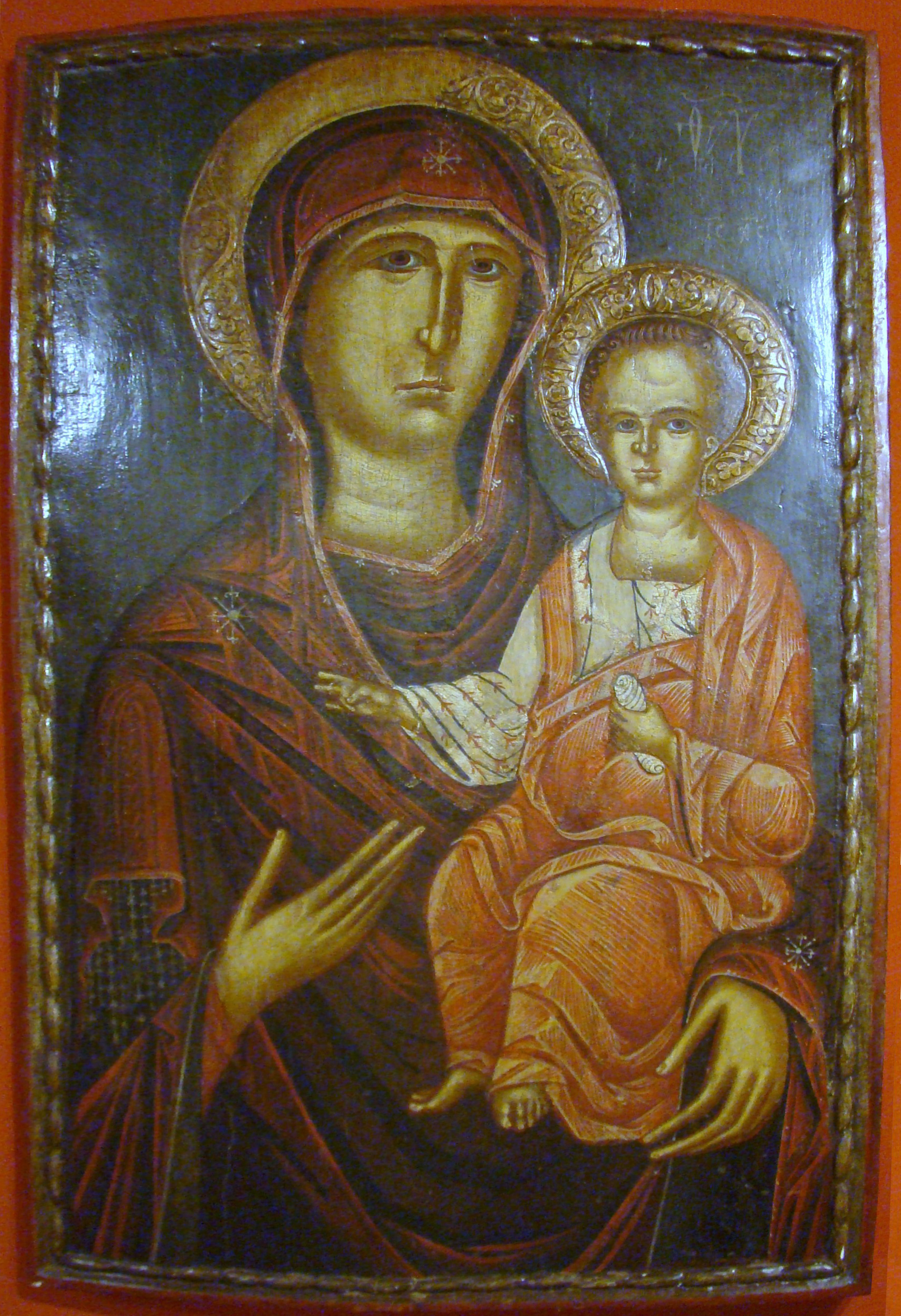 Virgin Mary (wood icon, Dezmir, Cluj county, Romania)